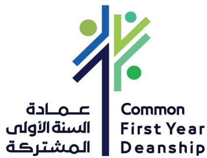 logo_First_Common_Year